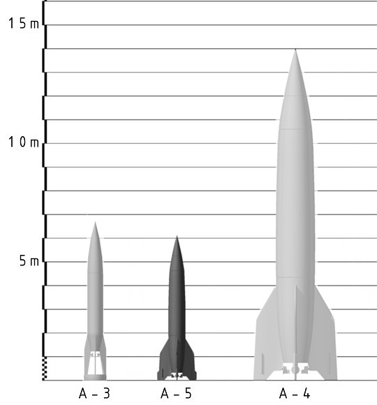 Aggregate-5 rocket shape.